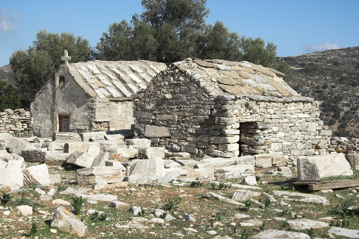 Church of Zoodochos Pigi and house (or rather the older church) near Pyrgos Cheimarrou (Chimarru).